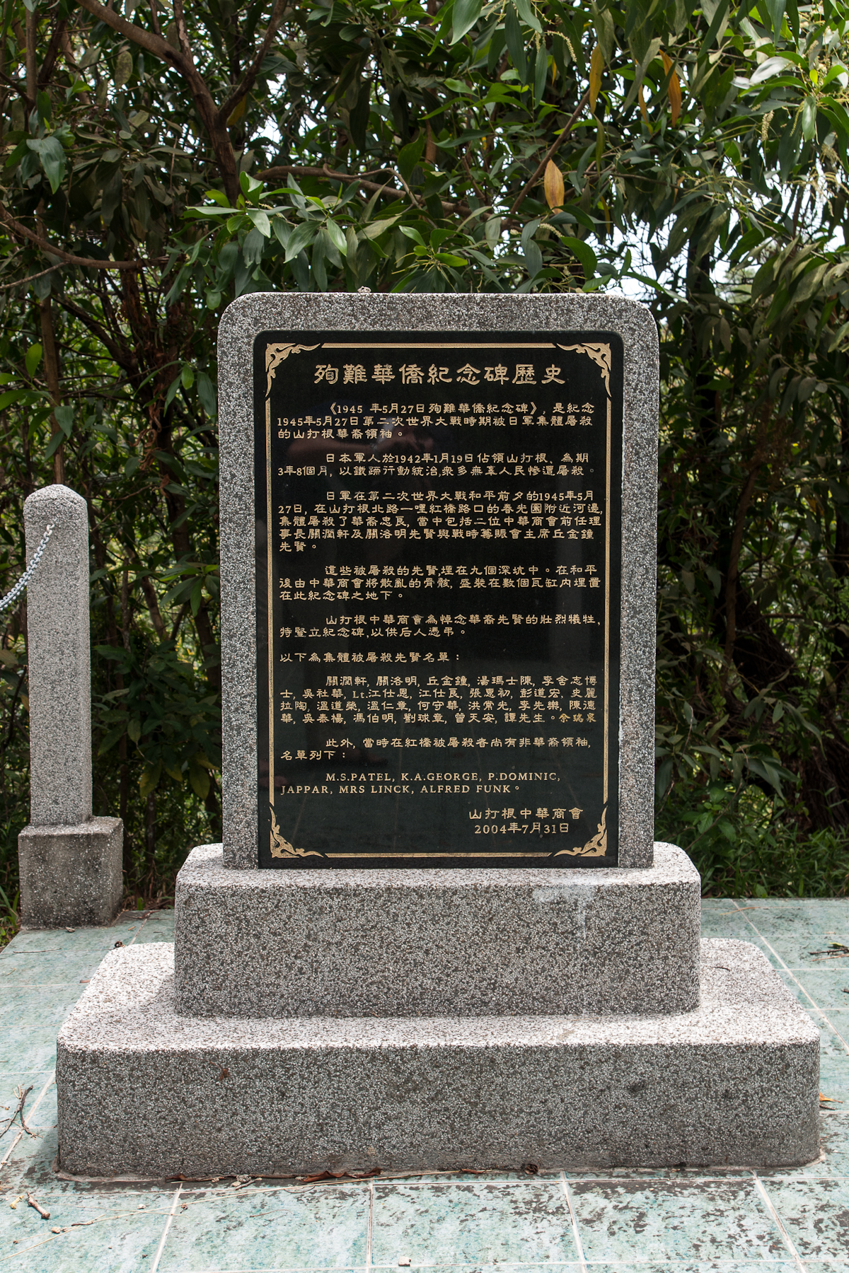 Sandakan, Sabah: Chinese Memorial for the Massacre of may 27, 1945; left part